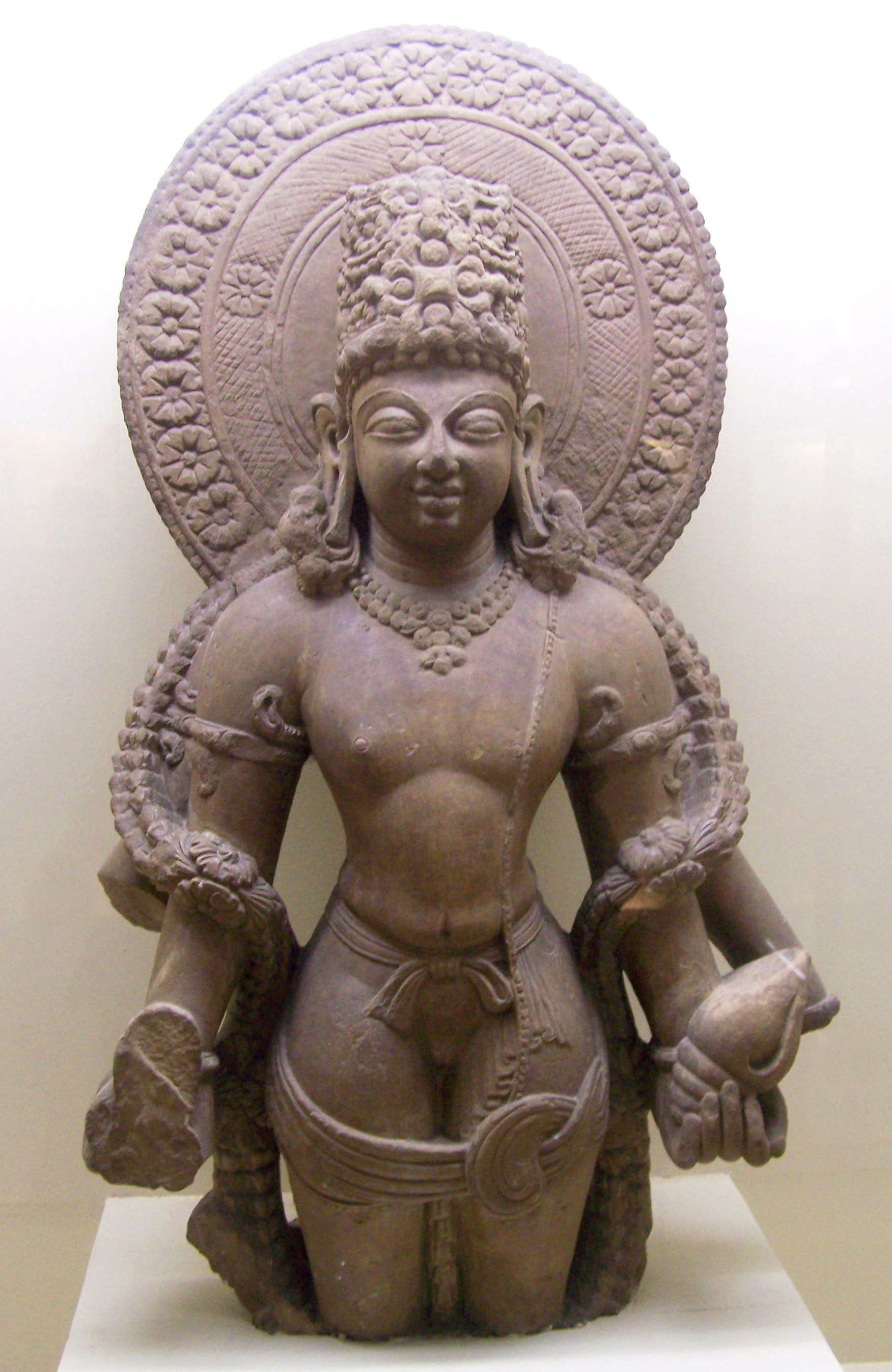 Vishnu statue from Mathura, 5th century, Gupta period. Uttar Pradesh State Museum.